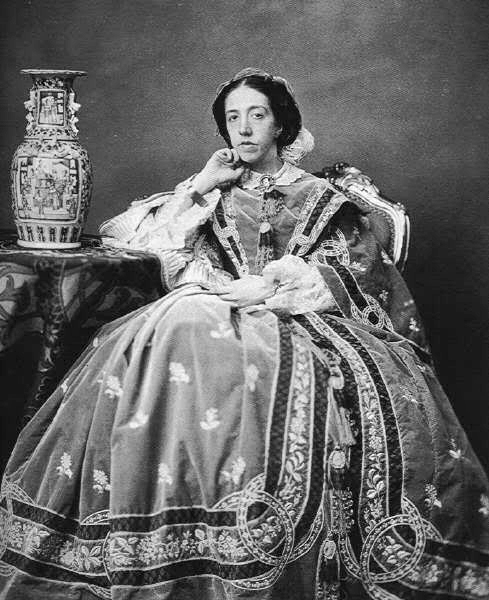 Infanta Maria Cristina of Spain (1833-1902) sister of King Francis